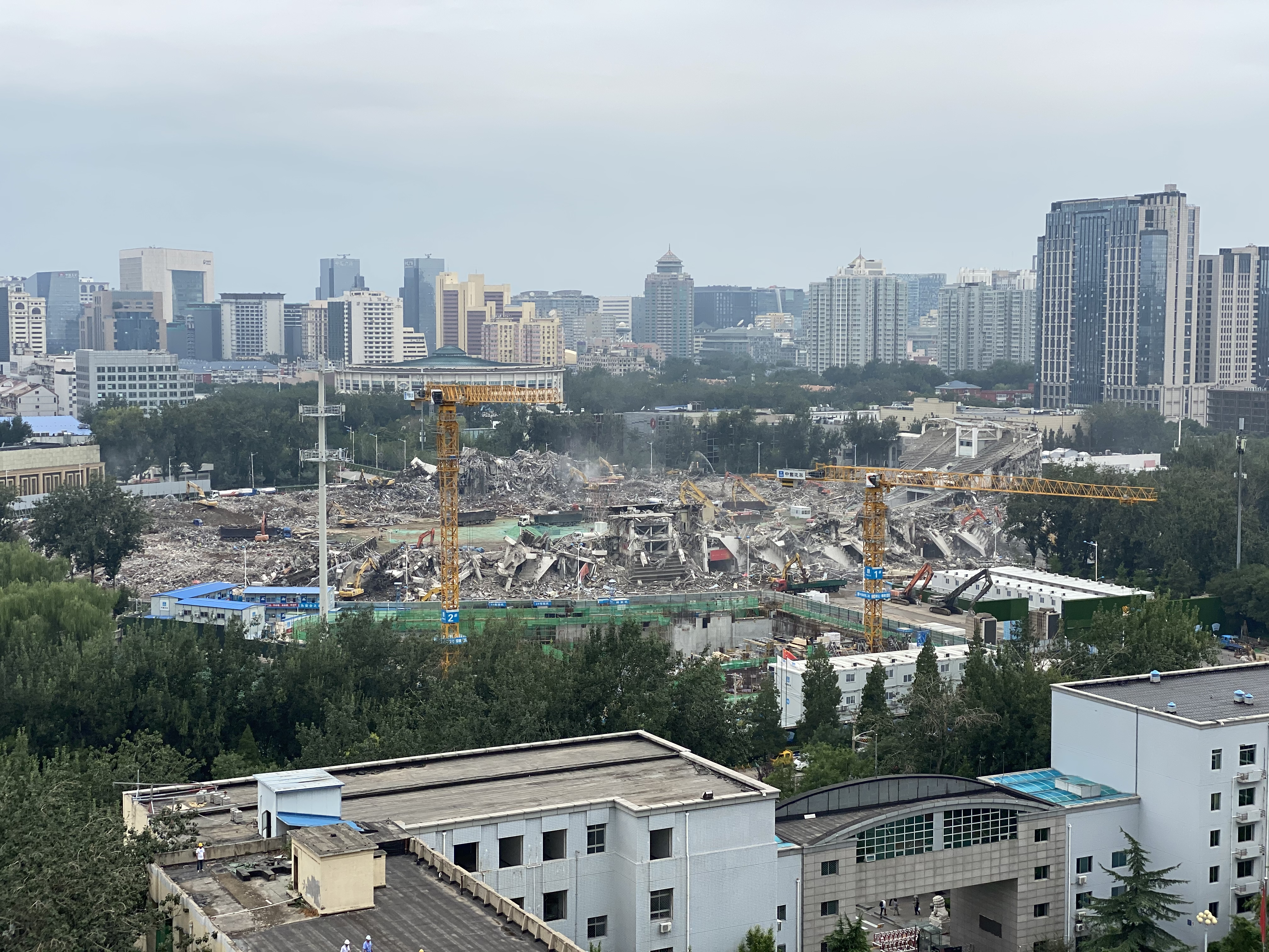 Demolition of the Workers' Stadium 2020-08-21